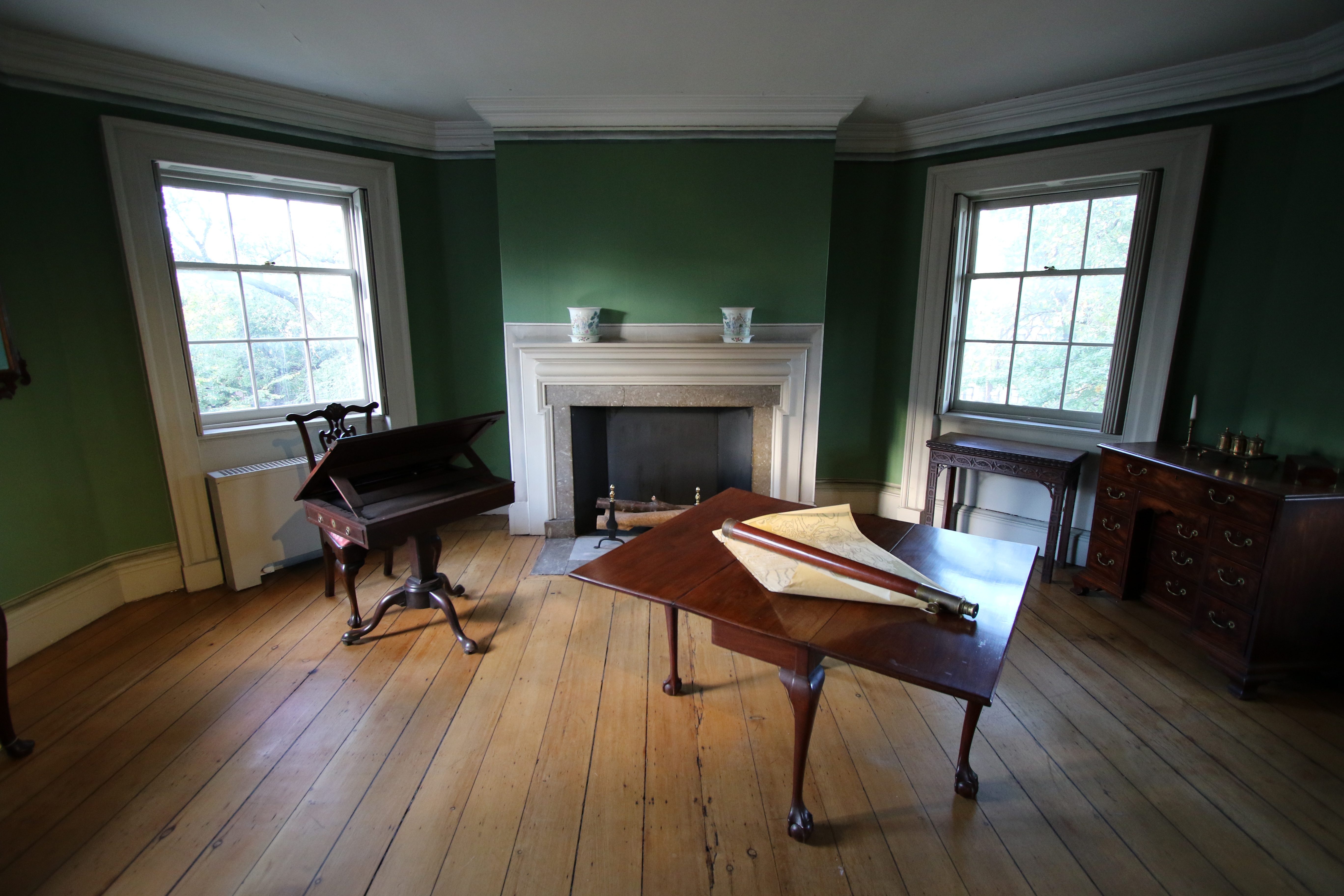 Study room at the historic Morris-Jumel Mansion in Manhattan. Site: Morris-Jumel Mansion